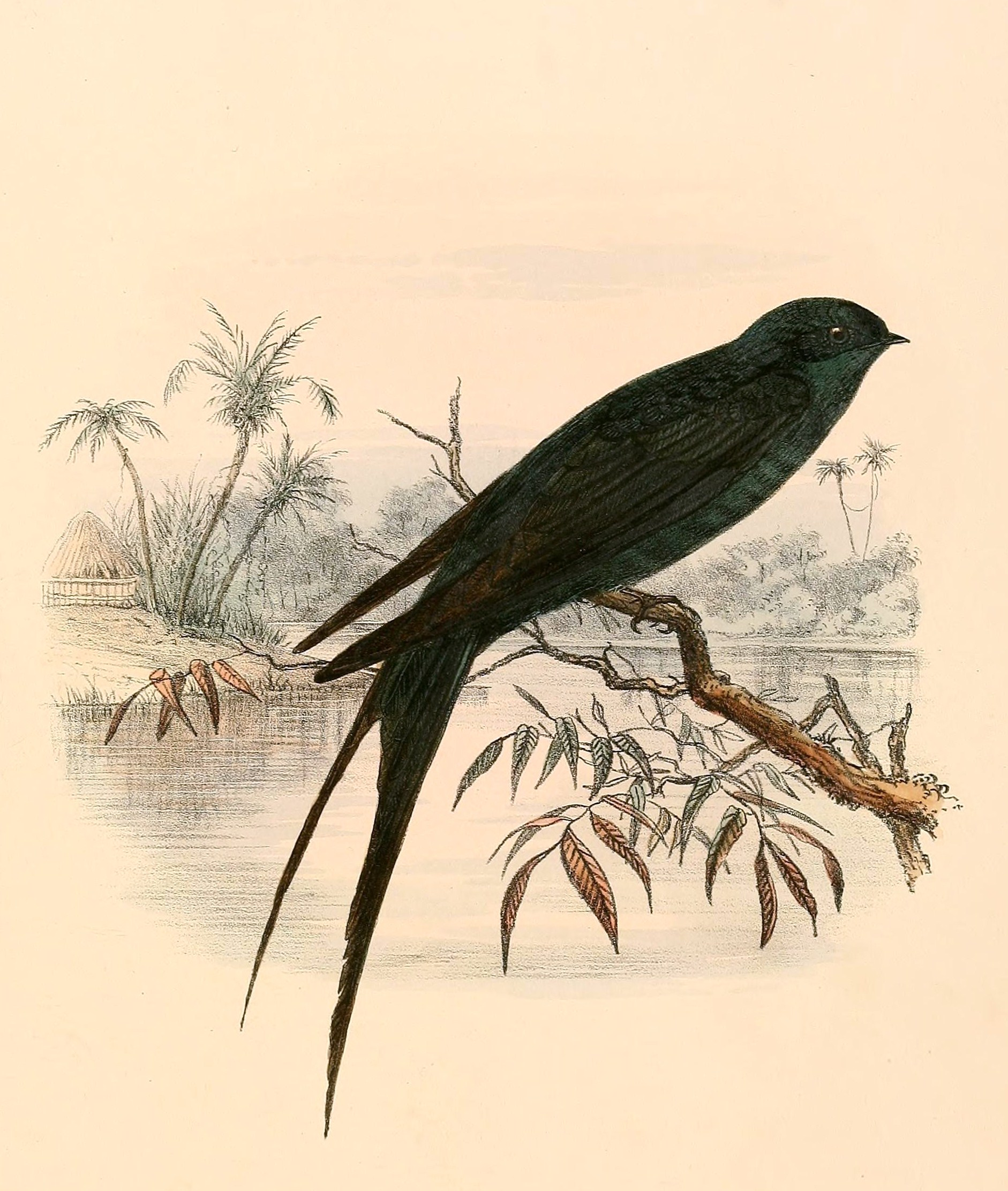 « Psalidoprocne obscura » = Psalidoprocne obscura (Fanti Saw-wing)